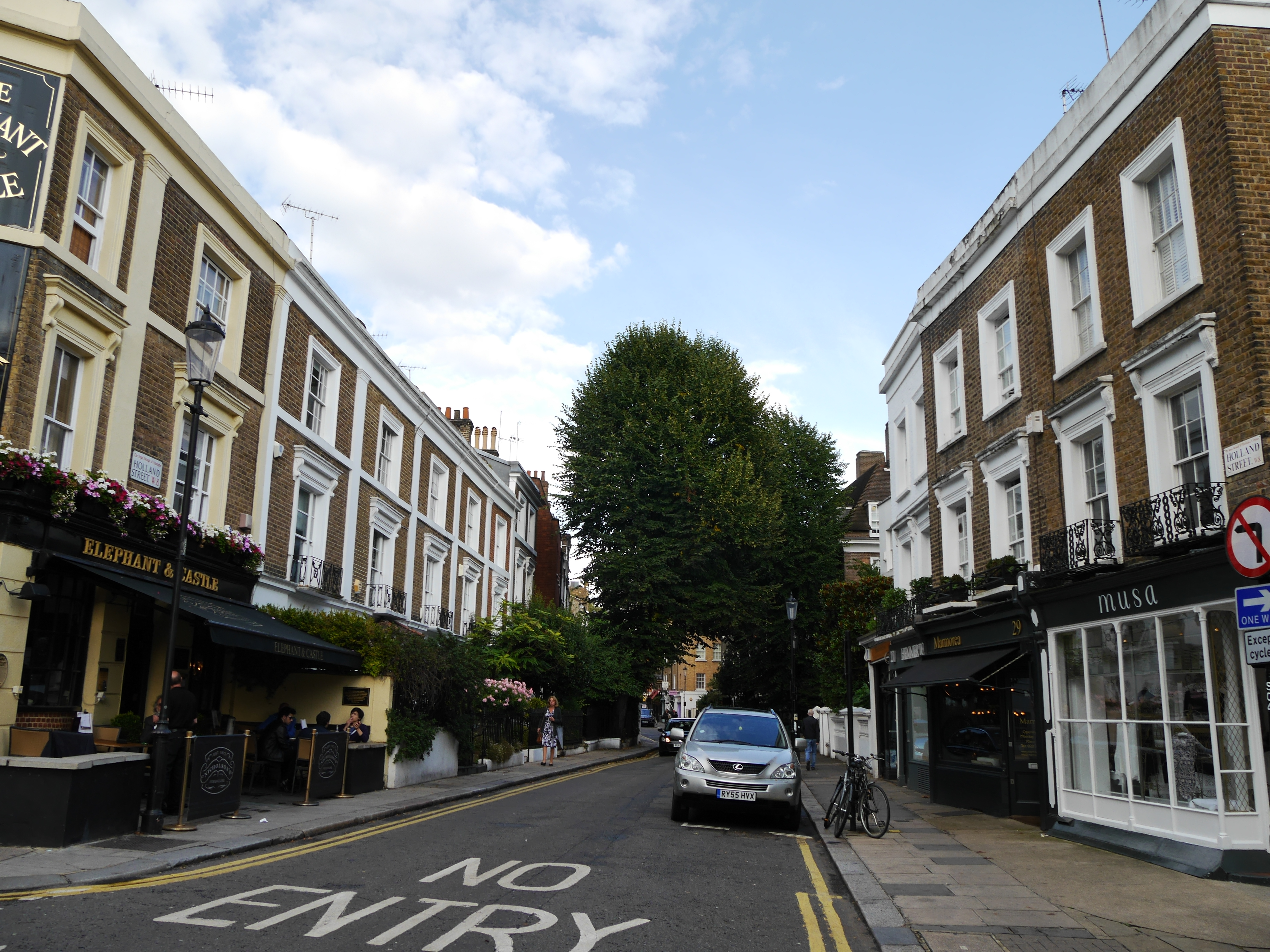 Holland Street, London W8, September 2016